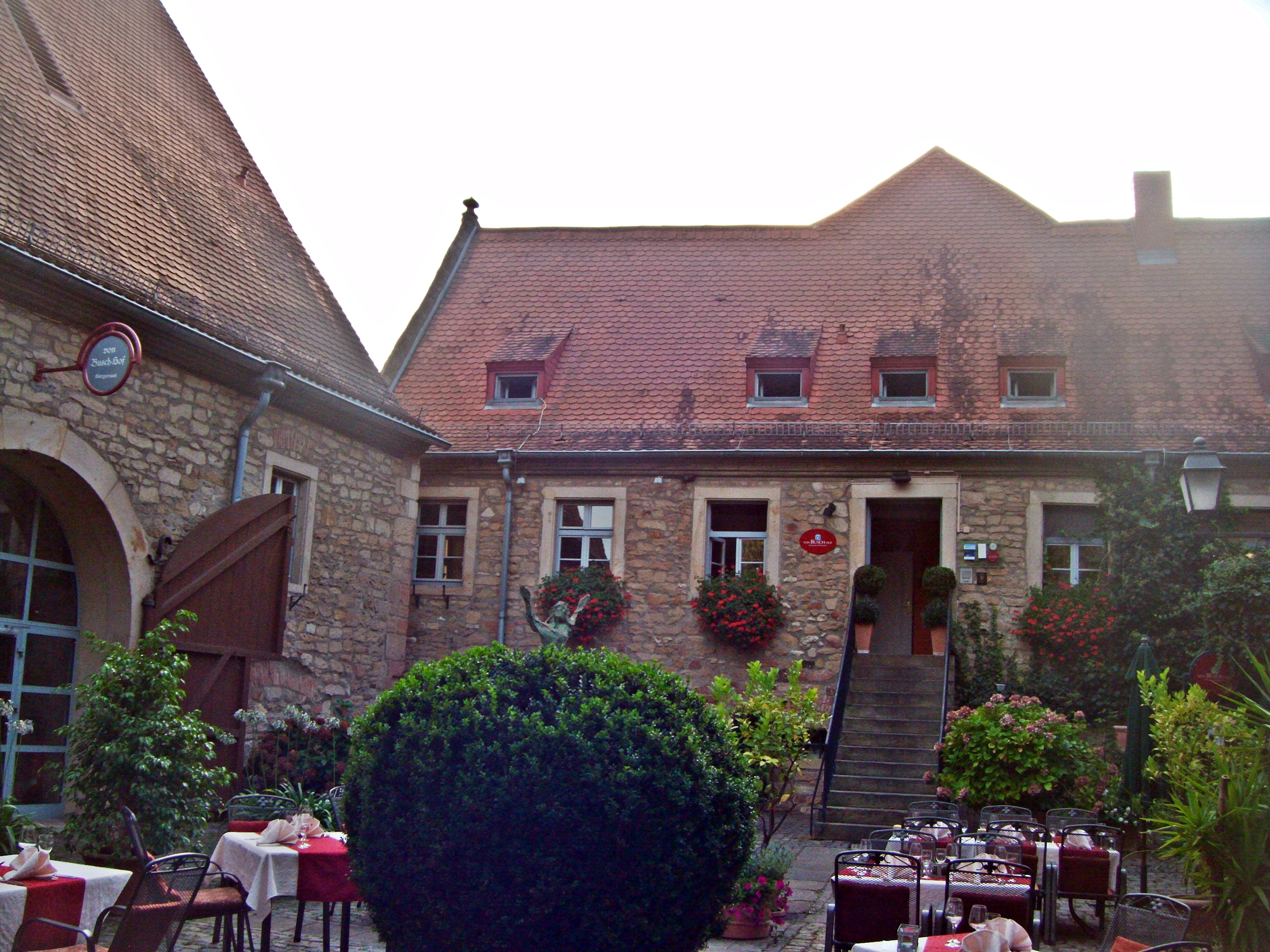 Freinsheim, von-Busch-Hof